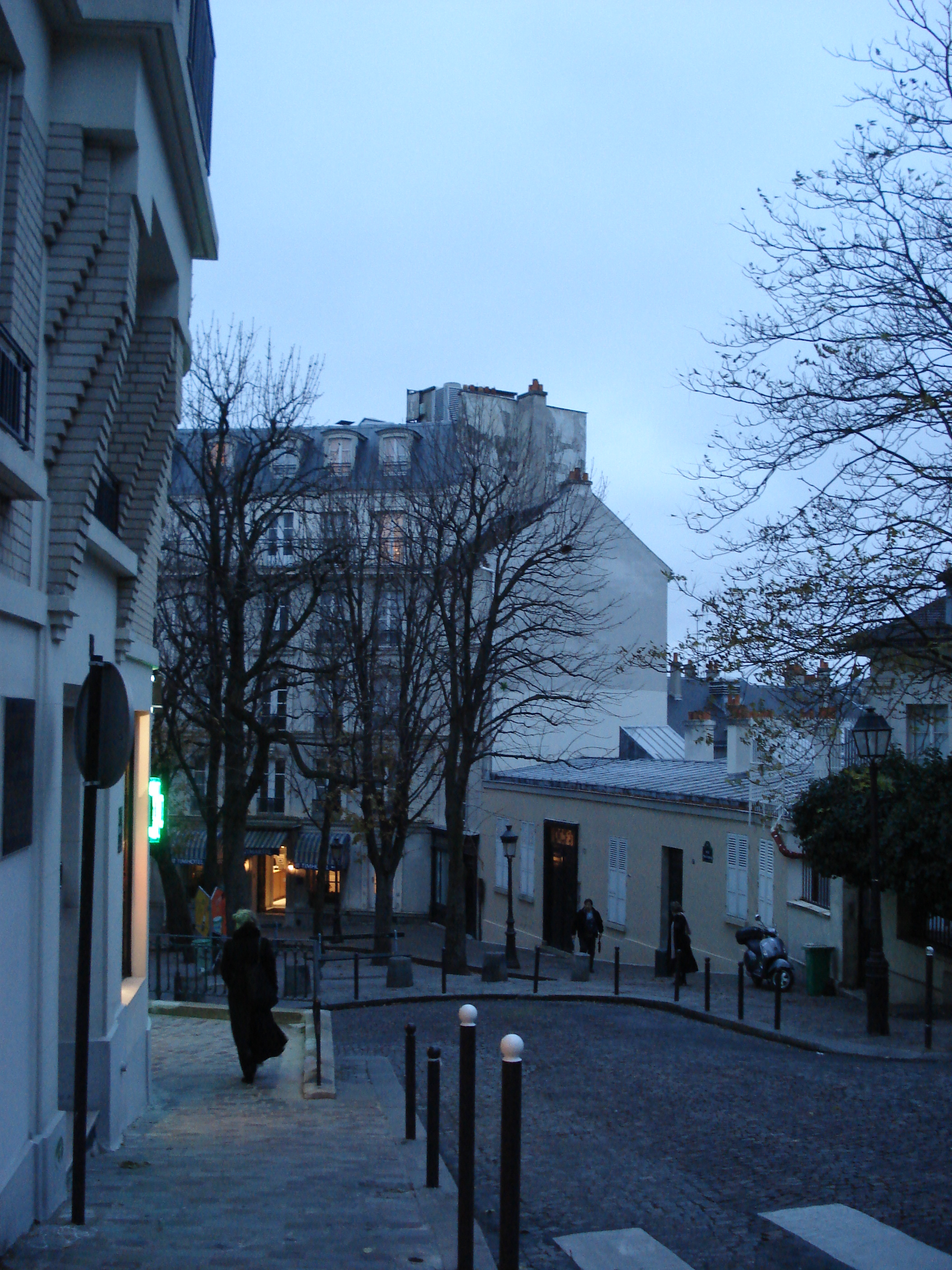 Street View from Paris